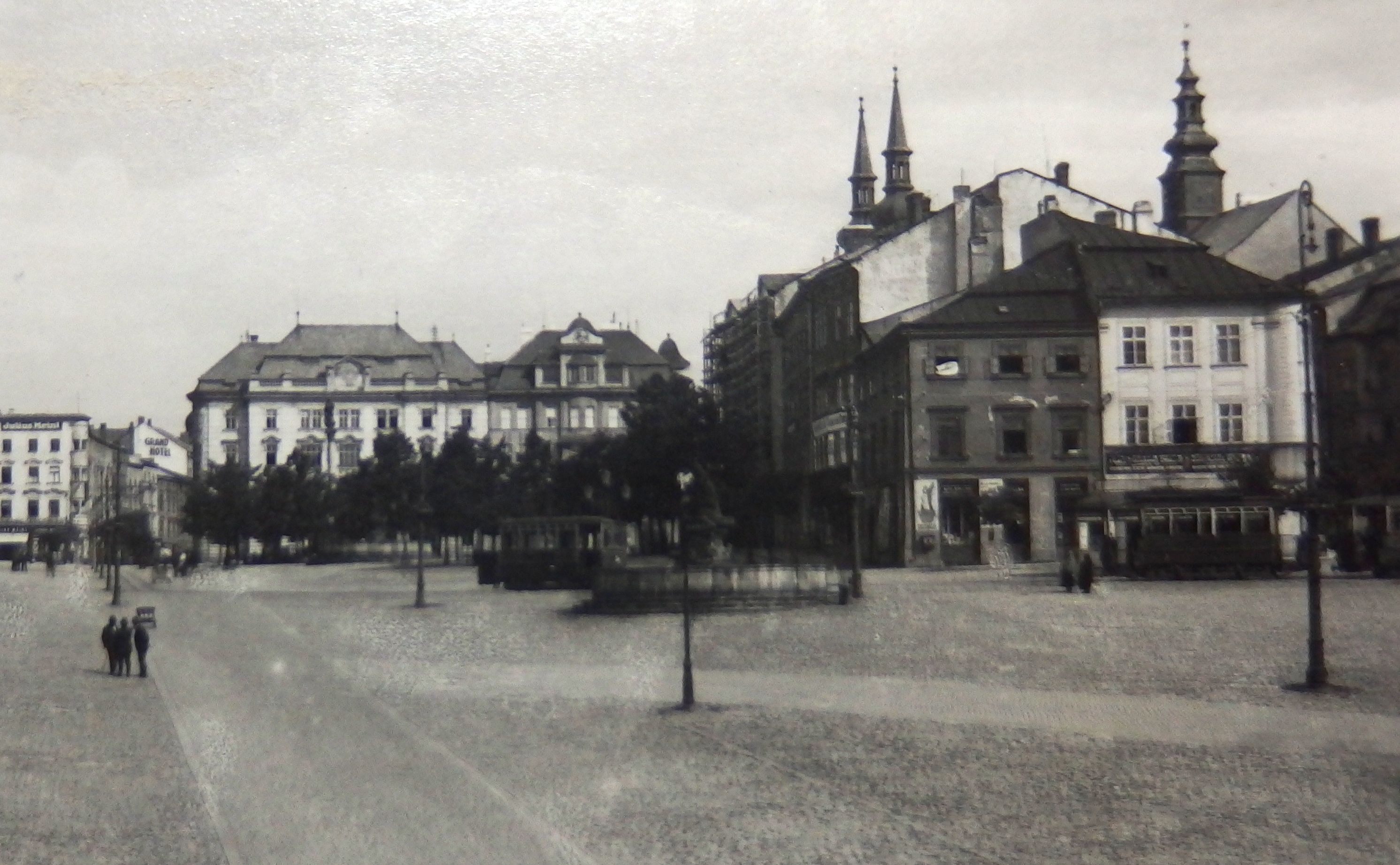 Jihlava, Czech Republic. Main square in the twenties.